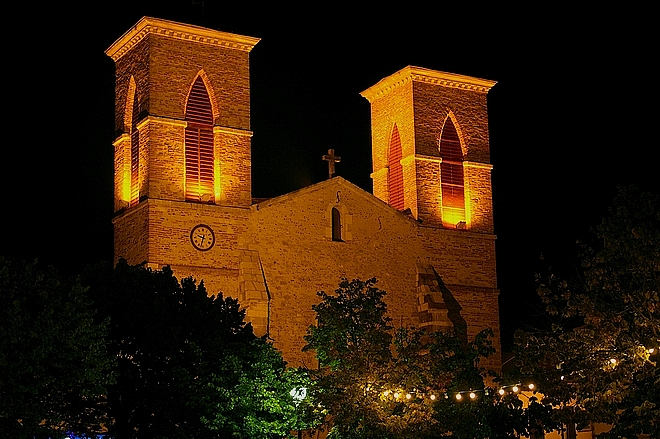 Church by night